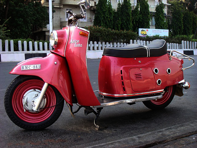 Maicoletta